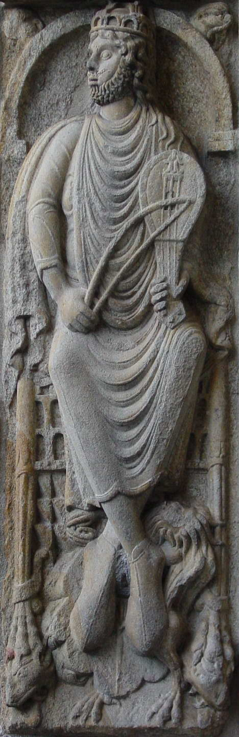 self made. Art of Galicia